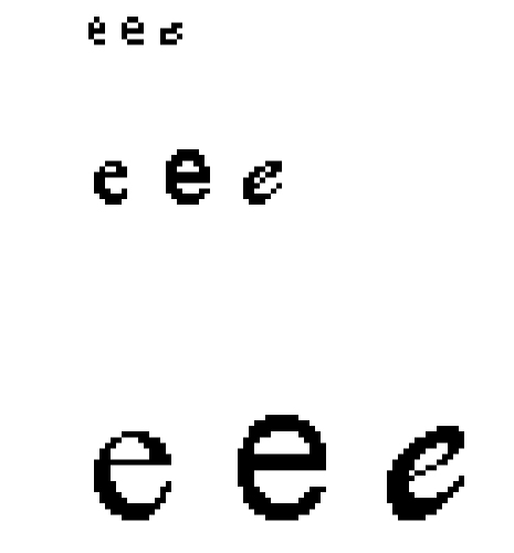 adjusted rasterizing of typefaces